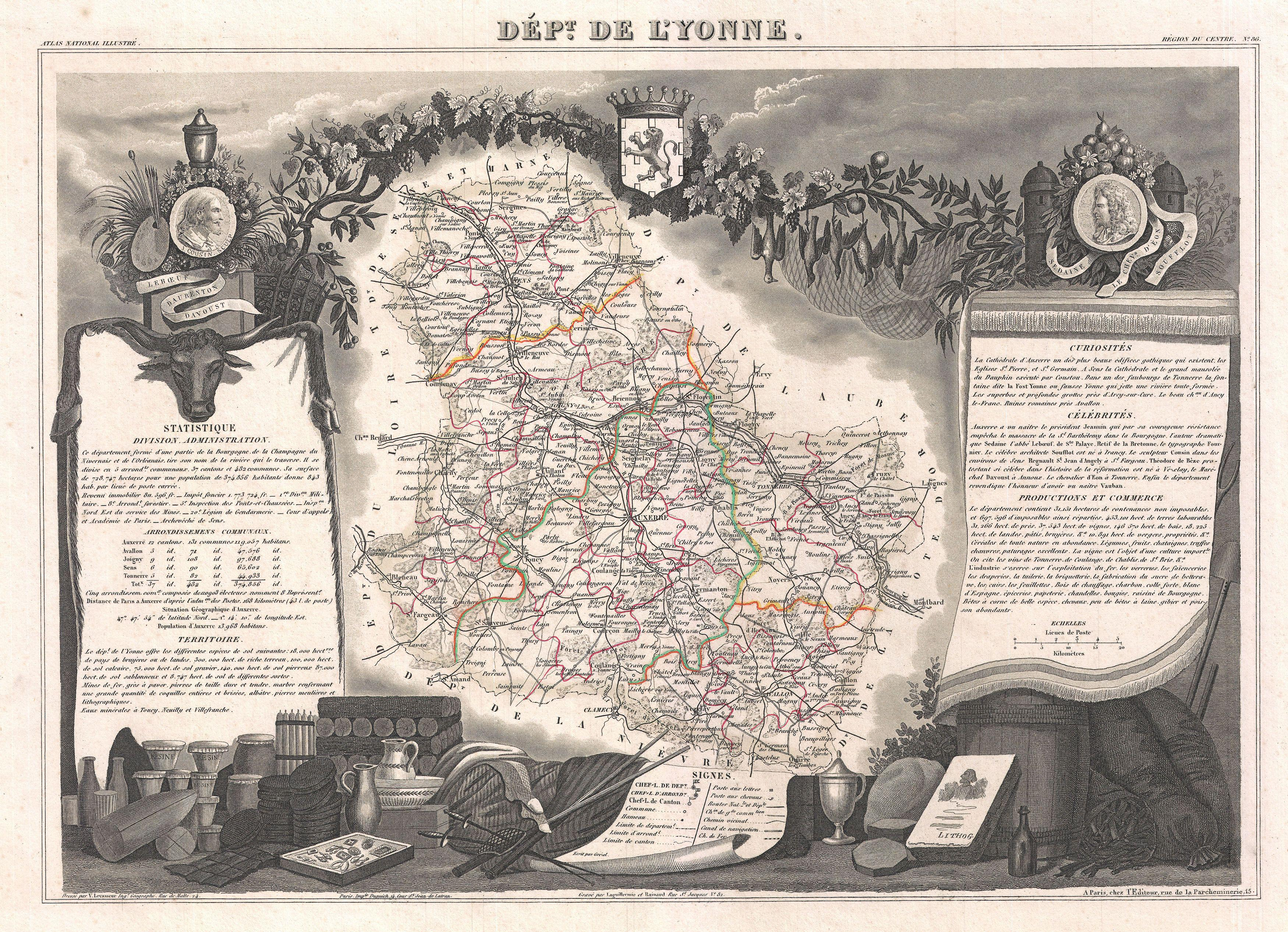 This is a fascinating 1852 map of the French department of L'Yonne, France. L'Yonne is of France's premier Burgundy wine region and produces some of the worlds finest reds. Yonne is also one of only two departments that produce Chaource cheese. Chaource is a cow's milk cheese, cylindrical in shape. The central pâte is soft, creamy in color, and slightly crumbly, and is surrounded by a white penicillium candidum rind. The whole map is surrounded by elaborate decorative engravings designed to illustrate both the natural beauty and trade richness of the land. There is a short textual history of the regions depicted on both the left and right sides of the map. Published by V. Levasseur in the 1852 edition of his Atlas National de la France Illustree.